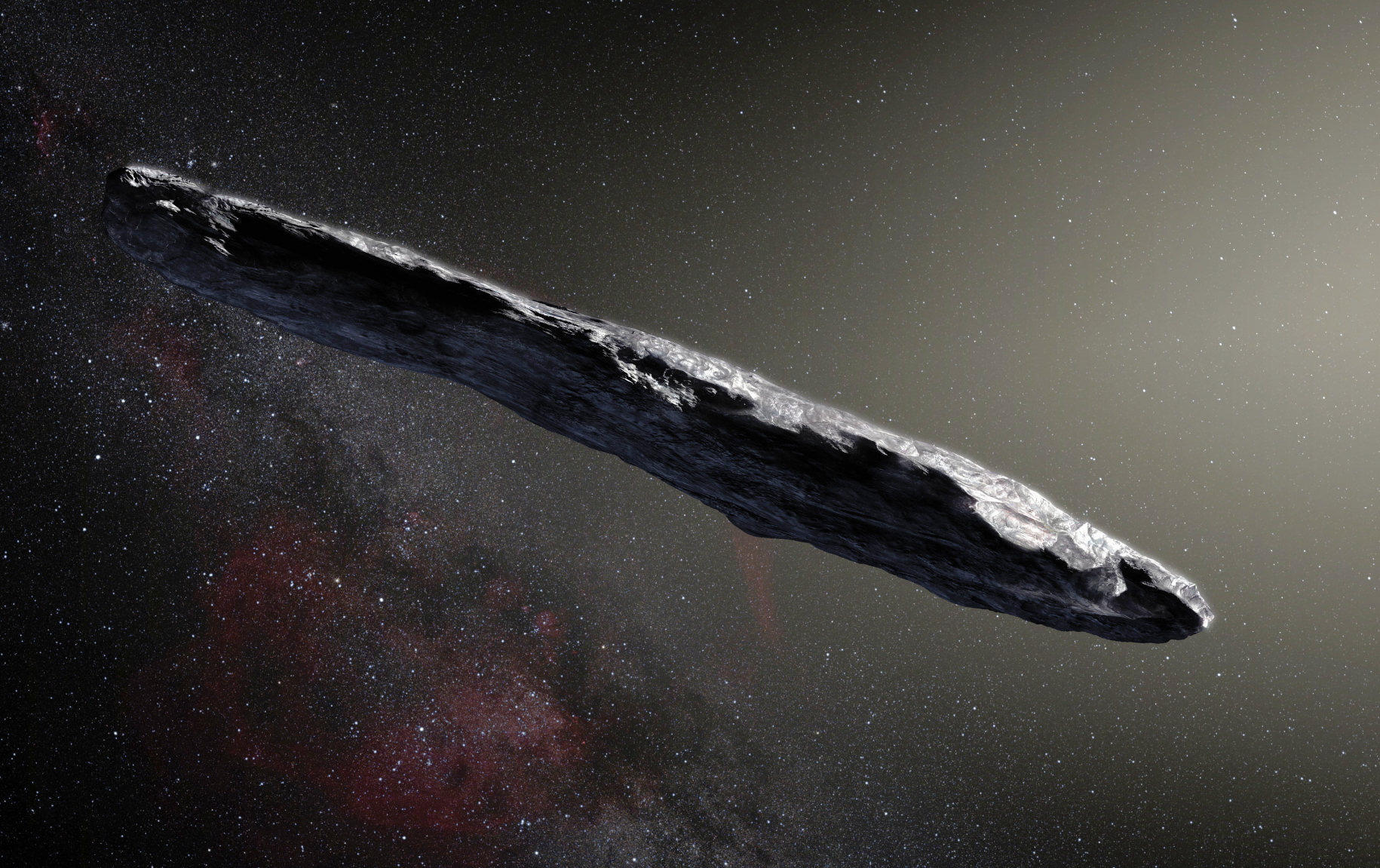 This artist’s impression shows the first interstellar asteroid: `Oumuamua. This unique object was discovered on 19 October 2017 by the Pan-STARRS 1 telescope in Hawai`i. Subsequent observations from ESO’s Very Large Telescope in Chile and other observatories around the world show that it was travelling through space for millions of years before its chance encounter with our star system. `Oumuamua seems to be a dark red highly-elongated metallic or rocky object, about 400 metres long, and is unlike anything normally found in the Solar System.